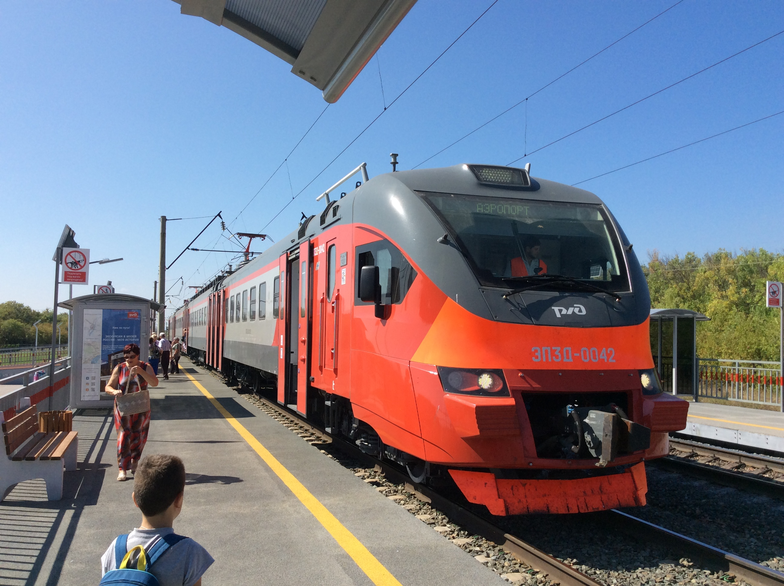 Saratov Gagarin Airport 2 days after opening.